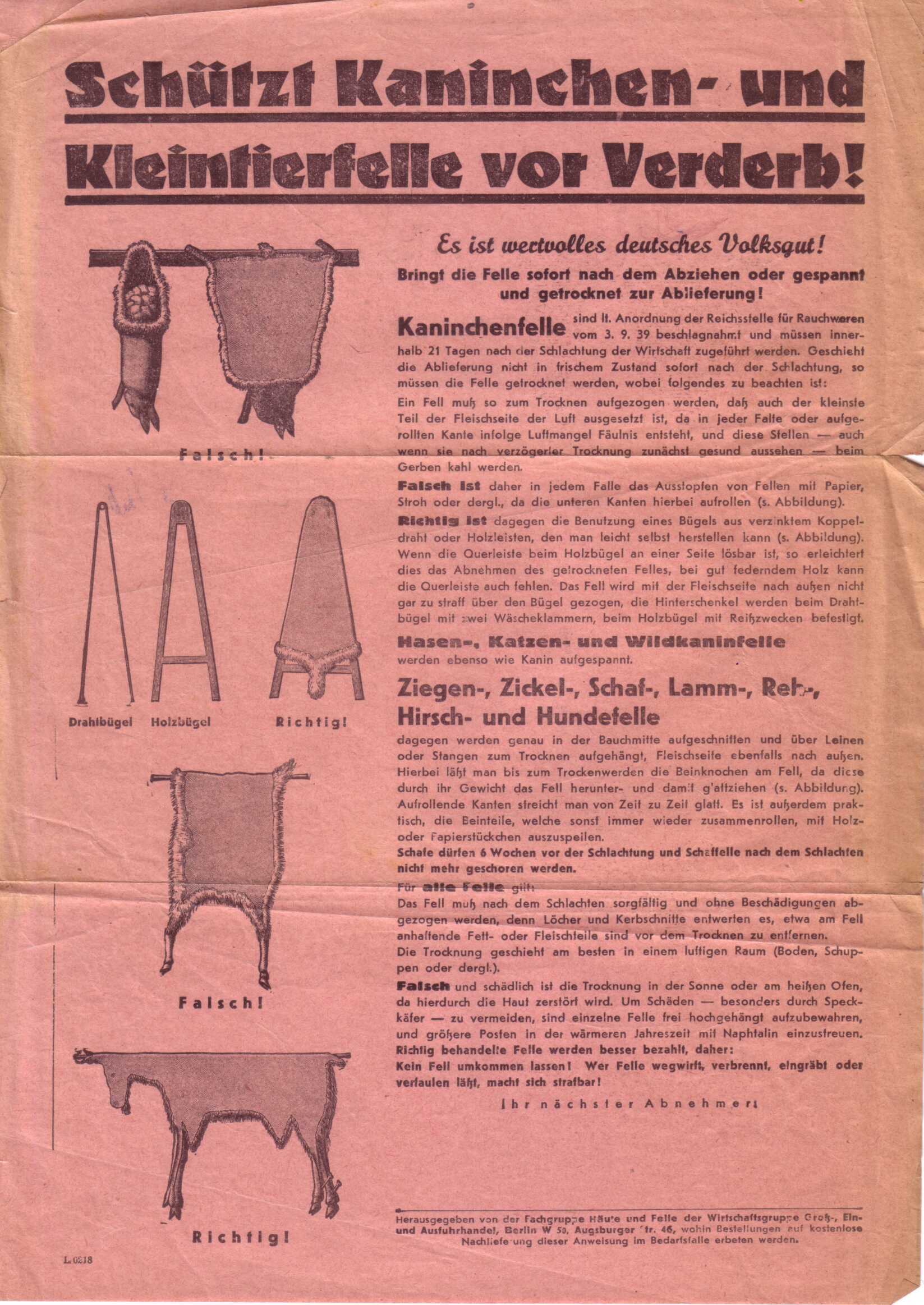 Protect rabbit and small animal skins from waste!